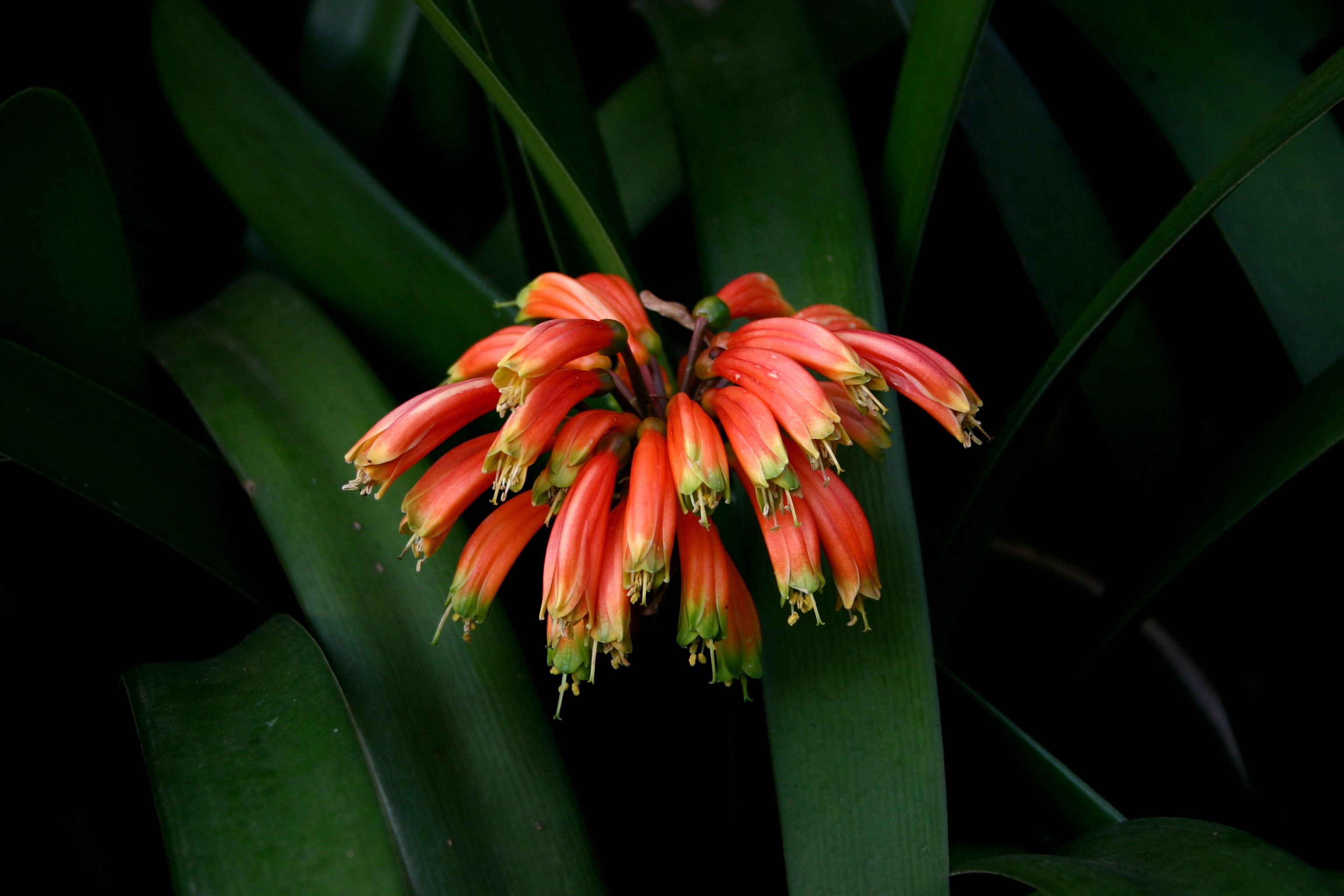 Flowers of Clivia nobilis Lindl., Pretoria, South Africa